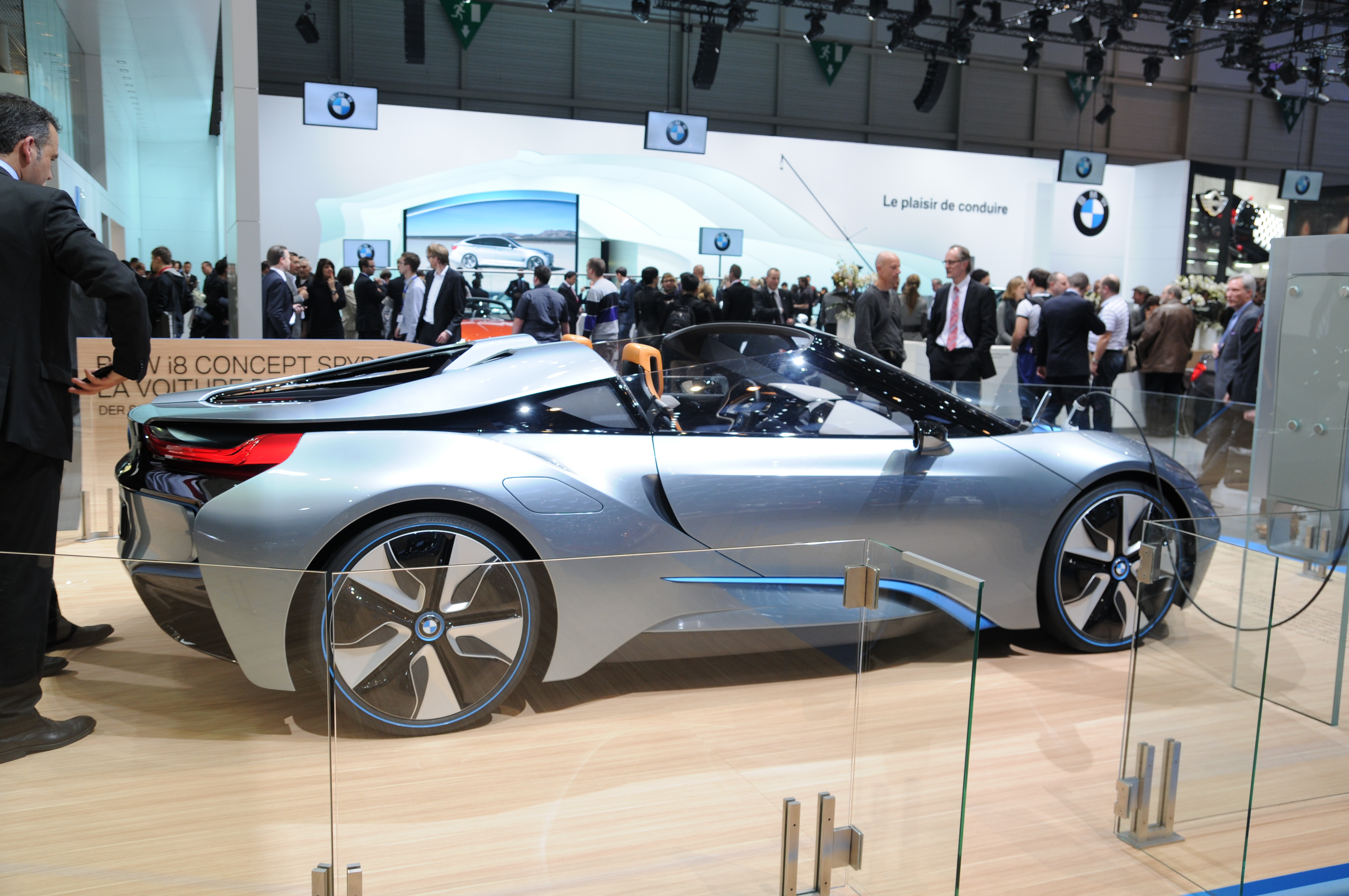 BMW i8 plug-in hybrid exhibited at the Geneva Motor Show 2013 (photos taken on the first press day)